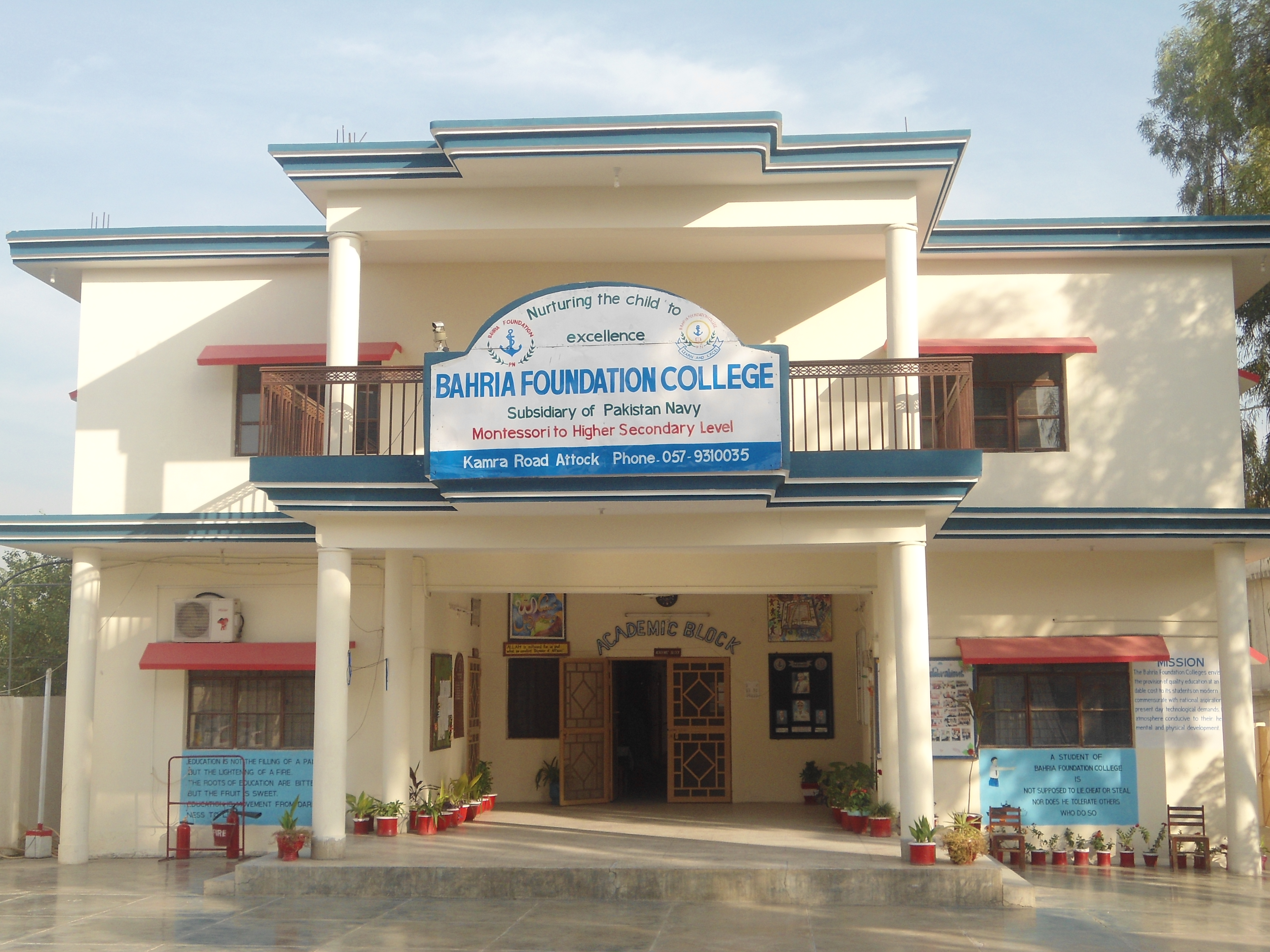 BFC ATTOCK SENIOR CAMPUS